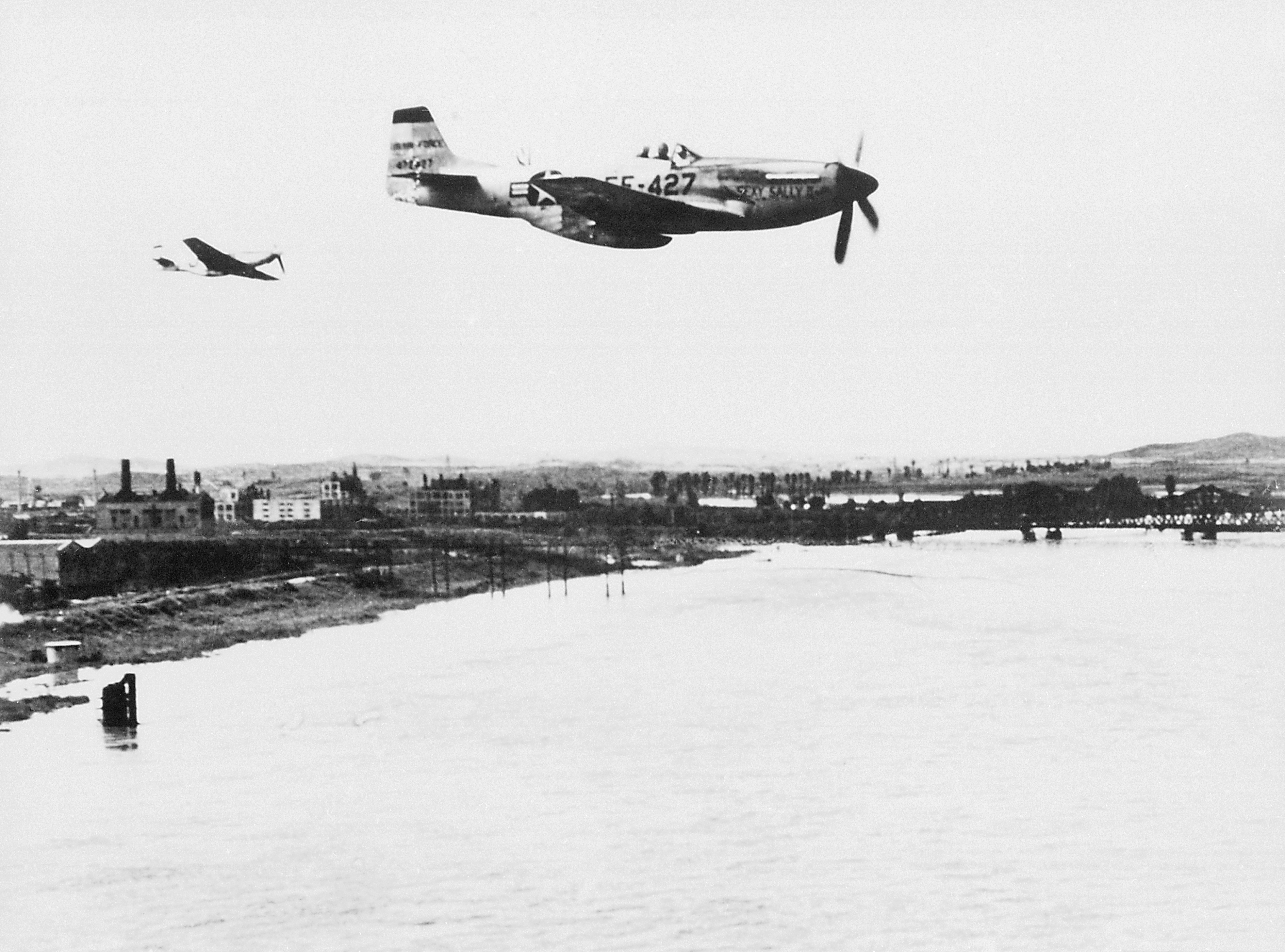 Original caption: "Torrential rains in North Korea which have turned creeks and tributaries into swollen flood waters pose no particular stoppage problem to the operations of tactical Fifth Air Force fighter bombers. A pair of sleek, sturdy F-51D "Mustangs" of the 18th Fighter Bomber Wing cross this swollen stream with complete indifference as they head toward their target to spew destruction on Communist military objectives with their heavy armament loads of rockets, napalm, bombs, and machine gun fire."